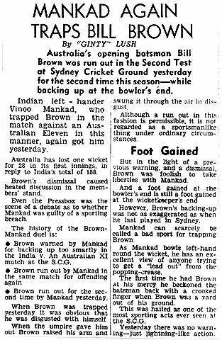 Makand again traps Bill Brown. Two newspaper articles, source unknown. The first, by Ginty Lush, is about the Australian batsman, Bill Brown, being run out by the Indian bowler, Vinoo Makand, while backing up at the bowler's end during the second Test Match, Australia v. India, played in Sydney on 12, 13 and 17 December 1947. The second article is about the alleged intimidatory bowling by the Australian bowlers, Lindwall and Miller, against the Indian batsmen during the same match.